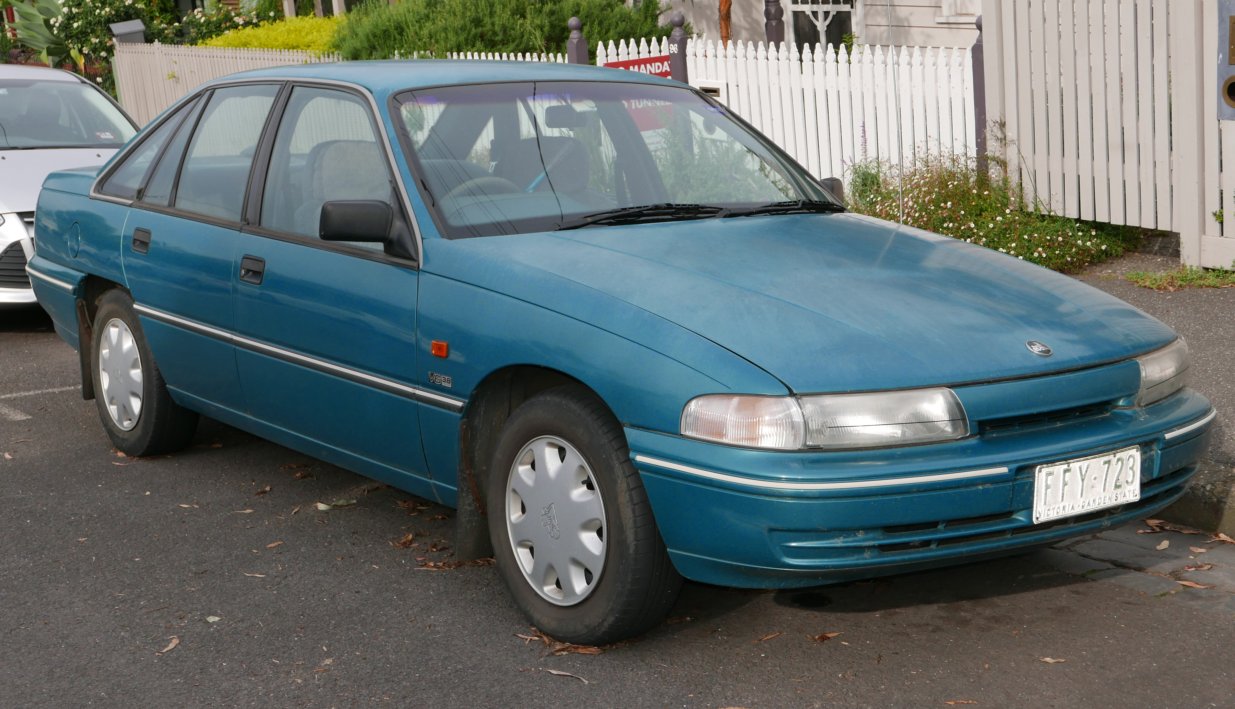 1993 Holden Commodore (VP II) Executive sedan. Photographed in Flemington, Victoria, Australia. Vehicle registration enquiry results Jurisdiction Victoria Registration FFY723 Chassis code 6H8VPK19HPL637010 Engine code VH1316563 Compliance date 1993-05 Year of manufacture 1993